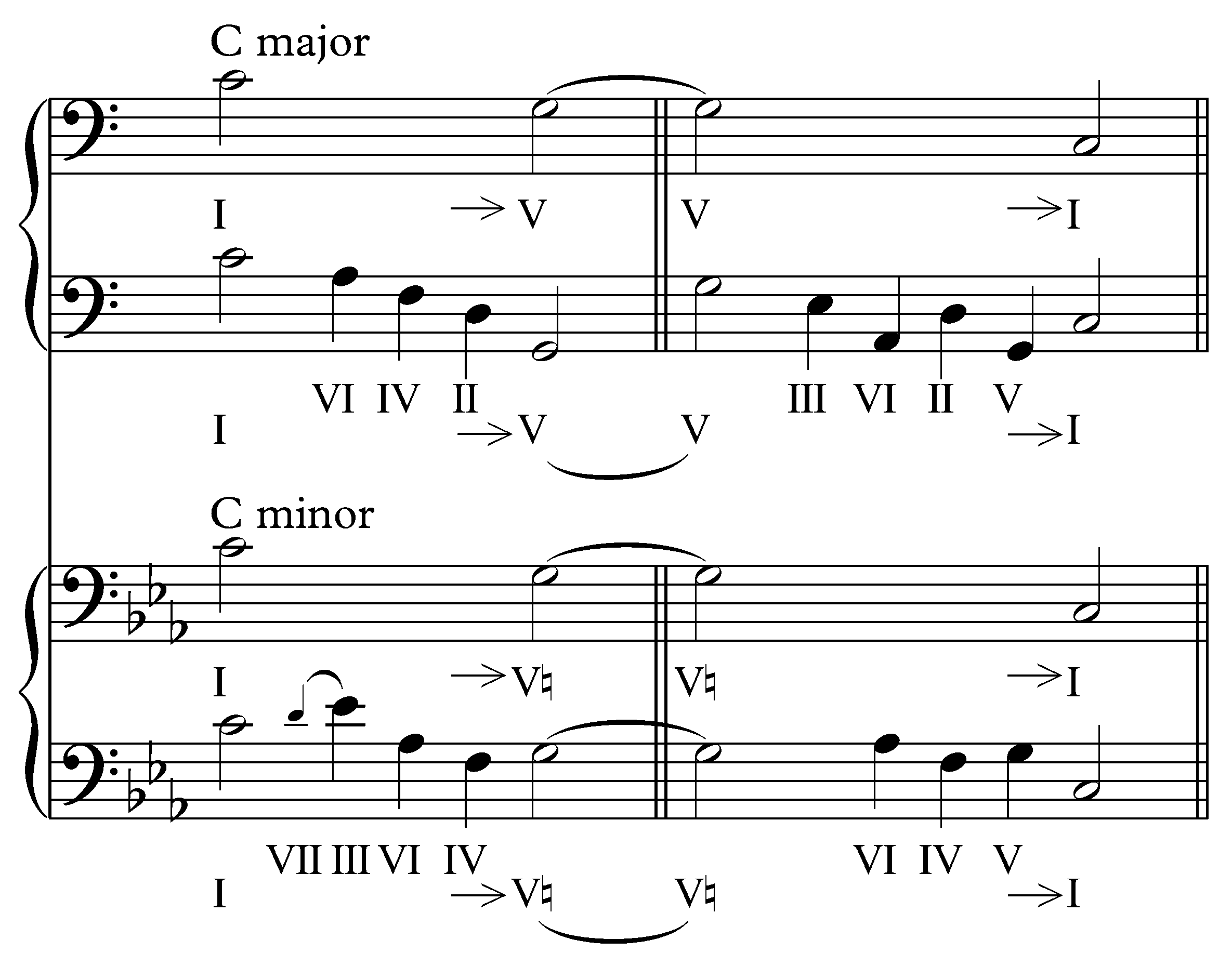 Harmonic axis in C major and minor. All motion is either towards the dominant (away from the tonic), or towards the tonic (away from the dominant).